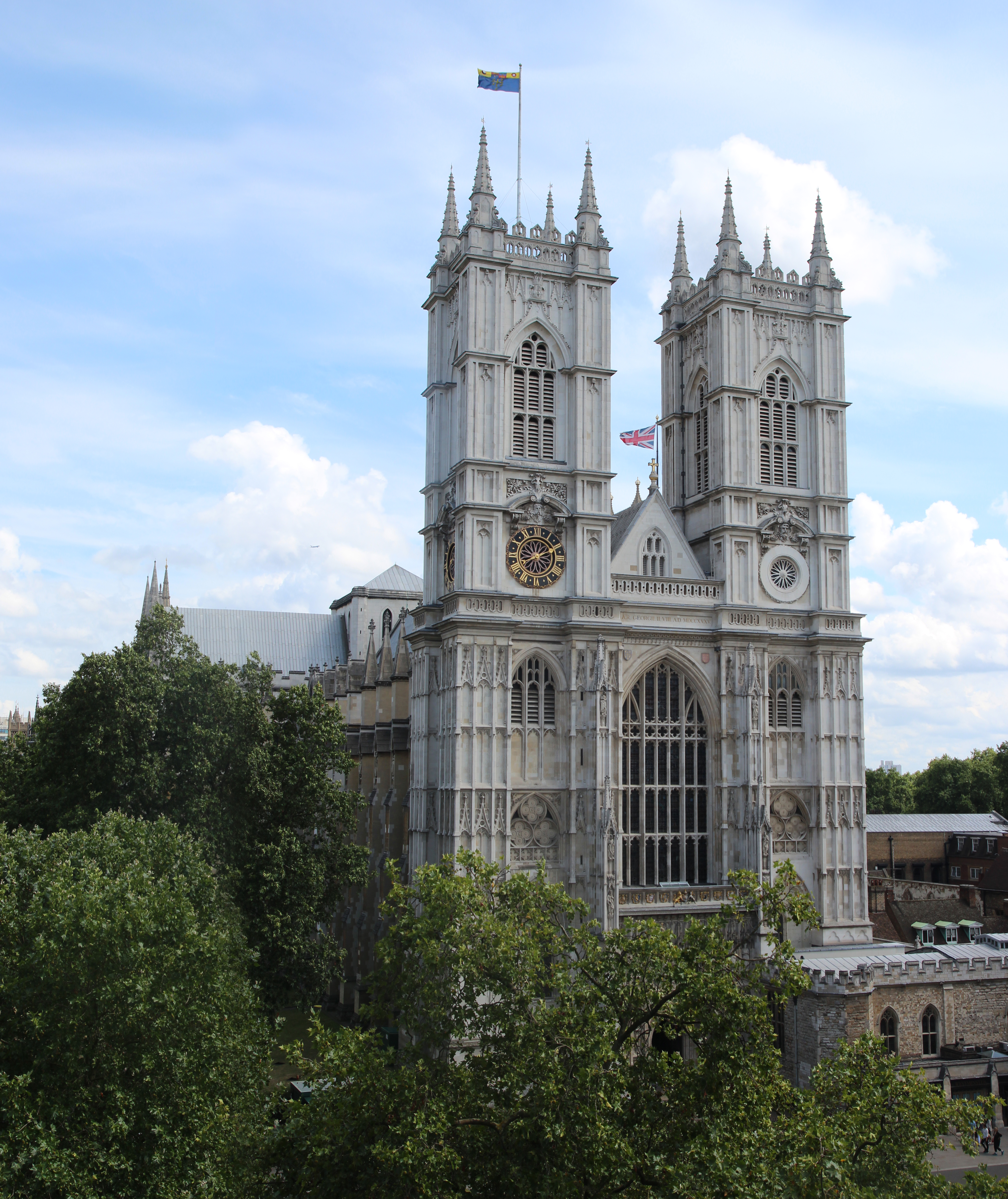 The west front of Westminster Abbey in August 2014. Photograph taken from the roof of Westminster Central Hall.